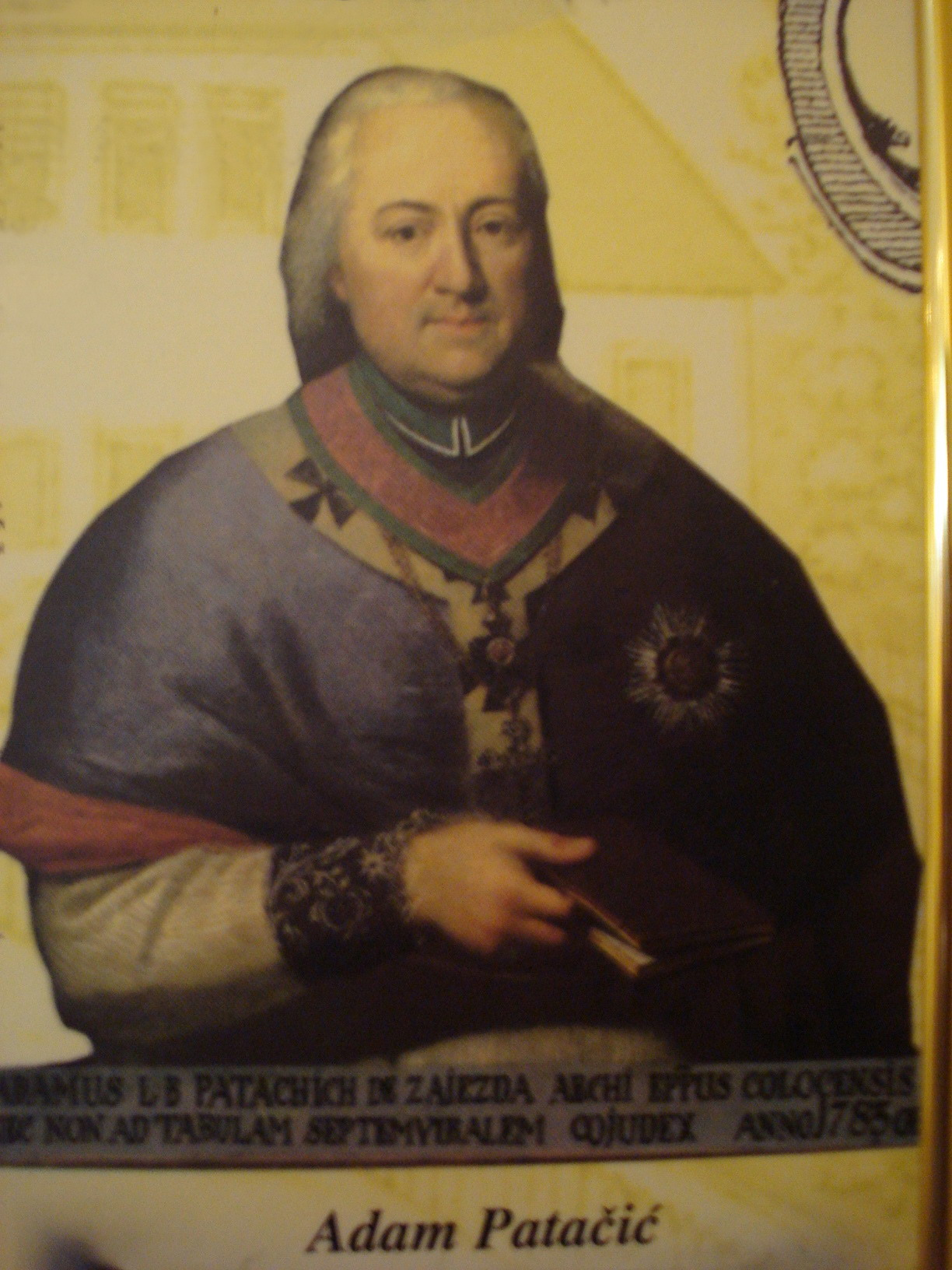 Adam Patačić (1717-1784), Croatian nobleman, poet and lexicographer, canon (priest) of Zagreb and archbishop of Kalocsa (Hungary)